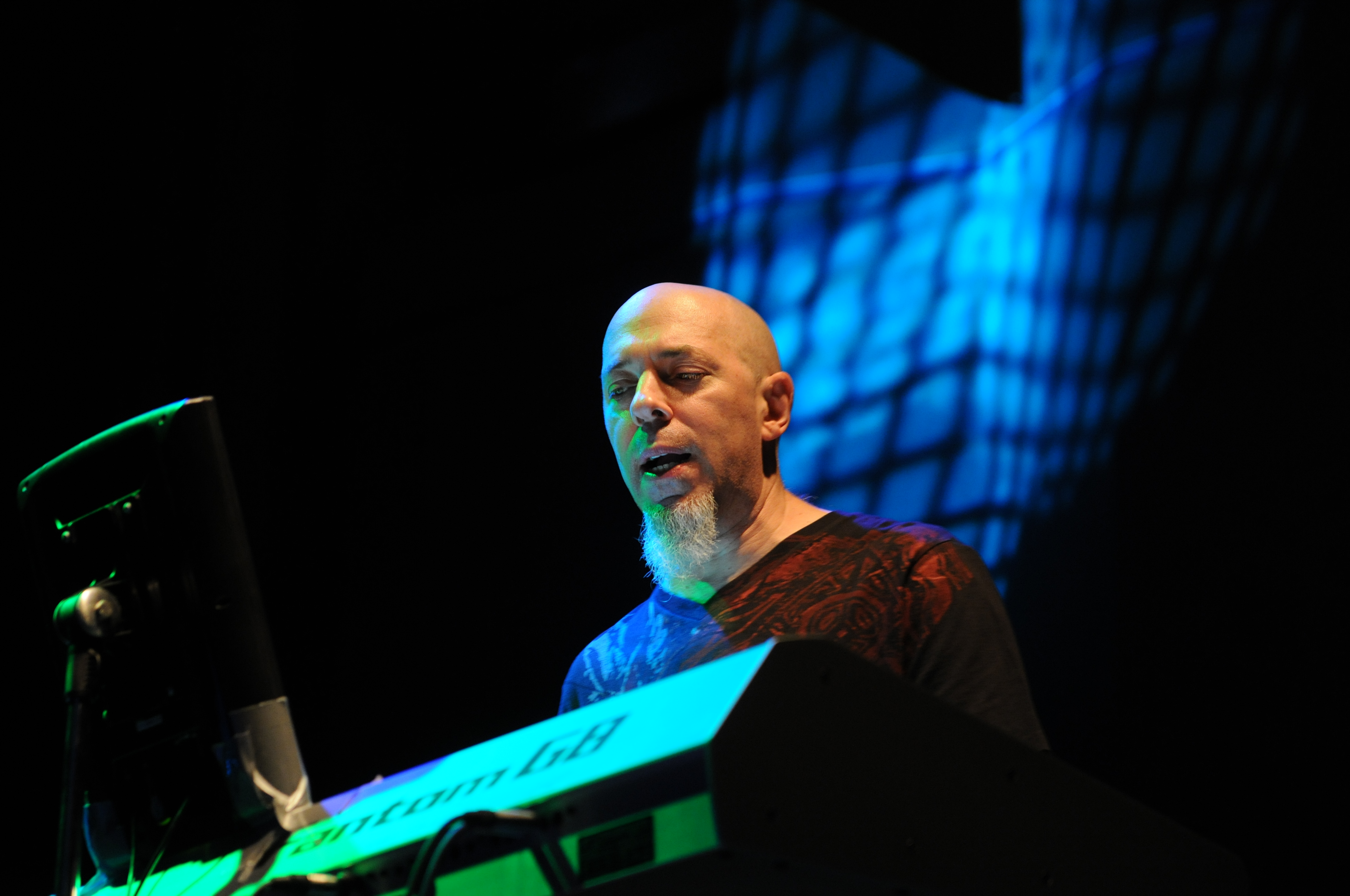 Jordan Rudess playing at the 17th International Percussion Festival in Opole, Poland